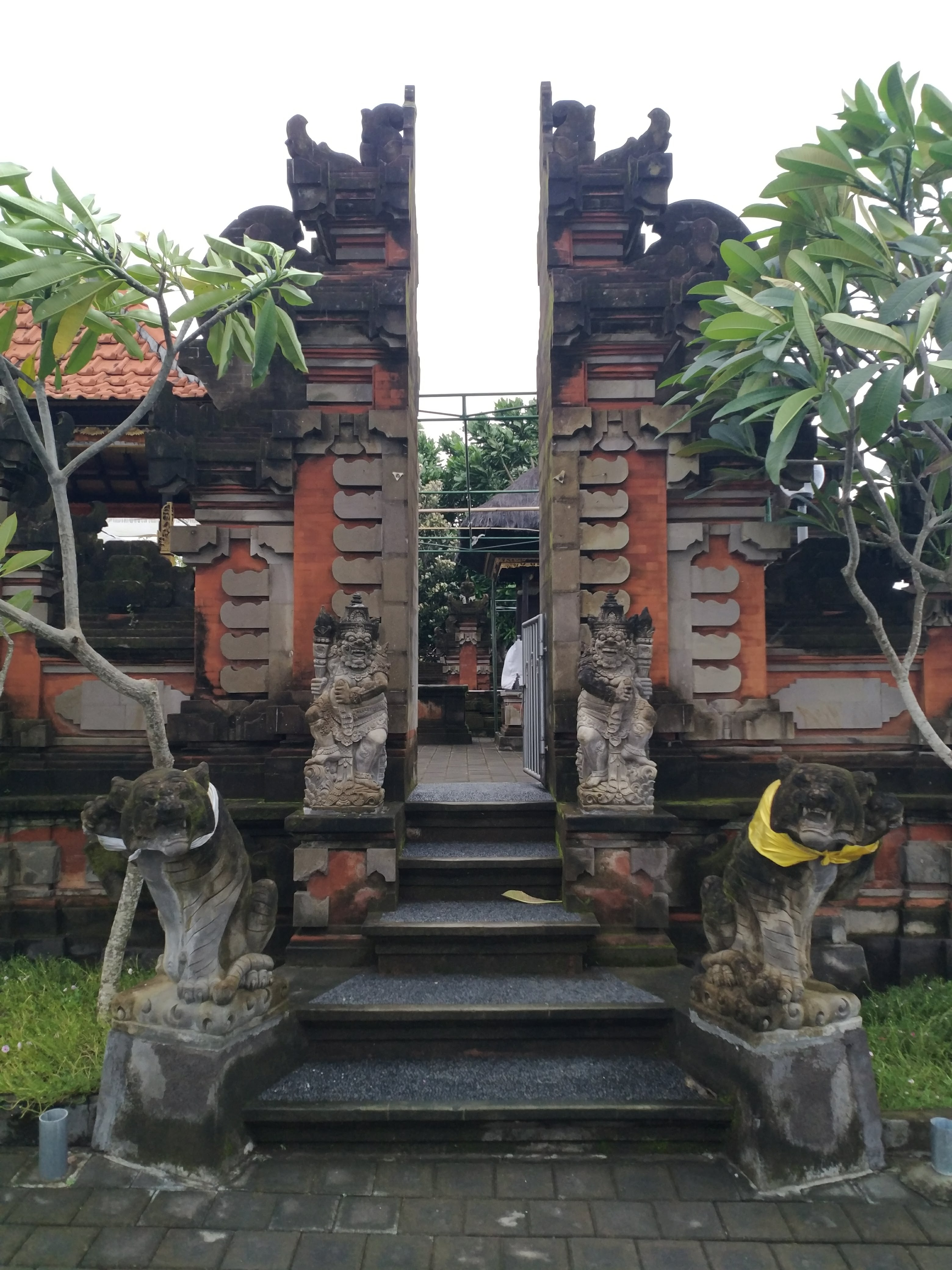 One of the entrances at Rambut Siwi temple